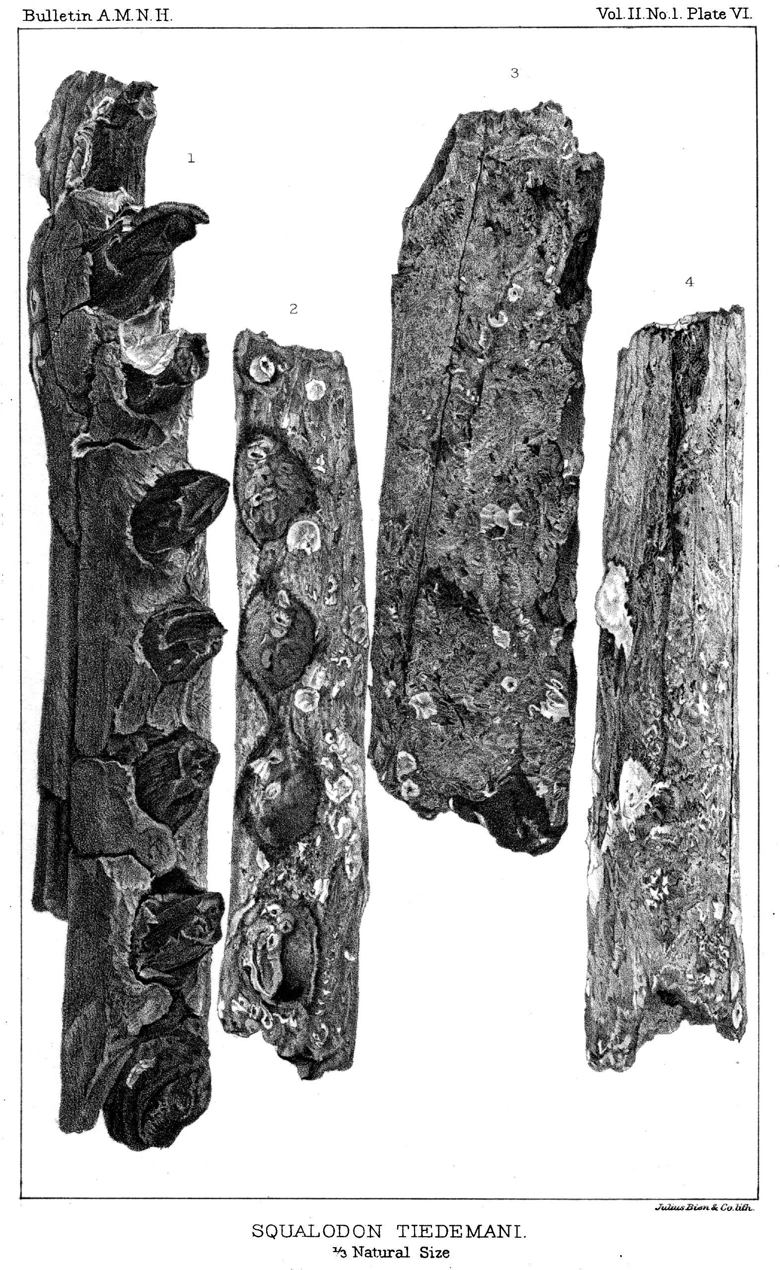 Ankylorhiza tiedemani skull fragments, specimen AMNH 10445. Fig. i. Rostral portion of skull, Y3 natural size. Fig. 2-4. Part of mandibular ramus, Y3 natural size.